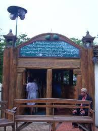 Syeh Jangkung